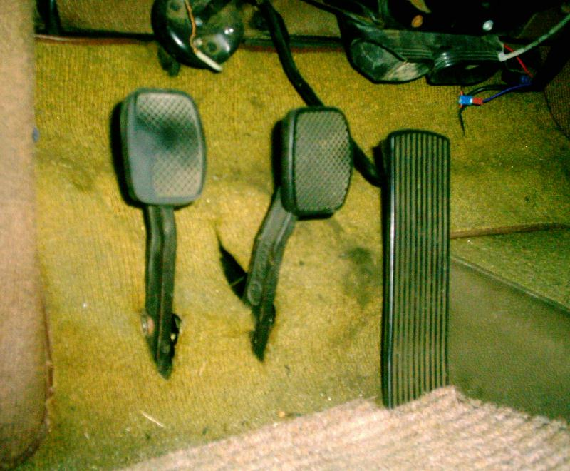 standing foot pedals in a 1972 Saab Sonett